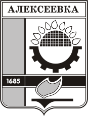 Alekseevka (Belgorod oblat), soviet coat of arms